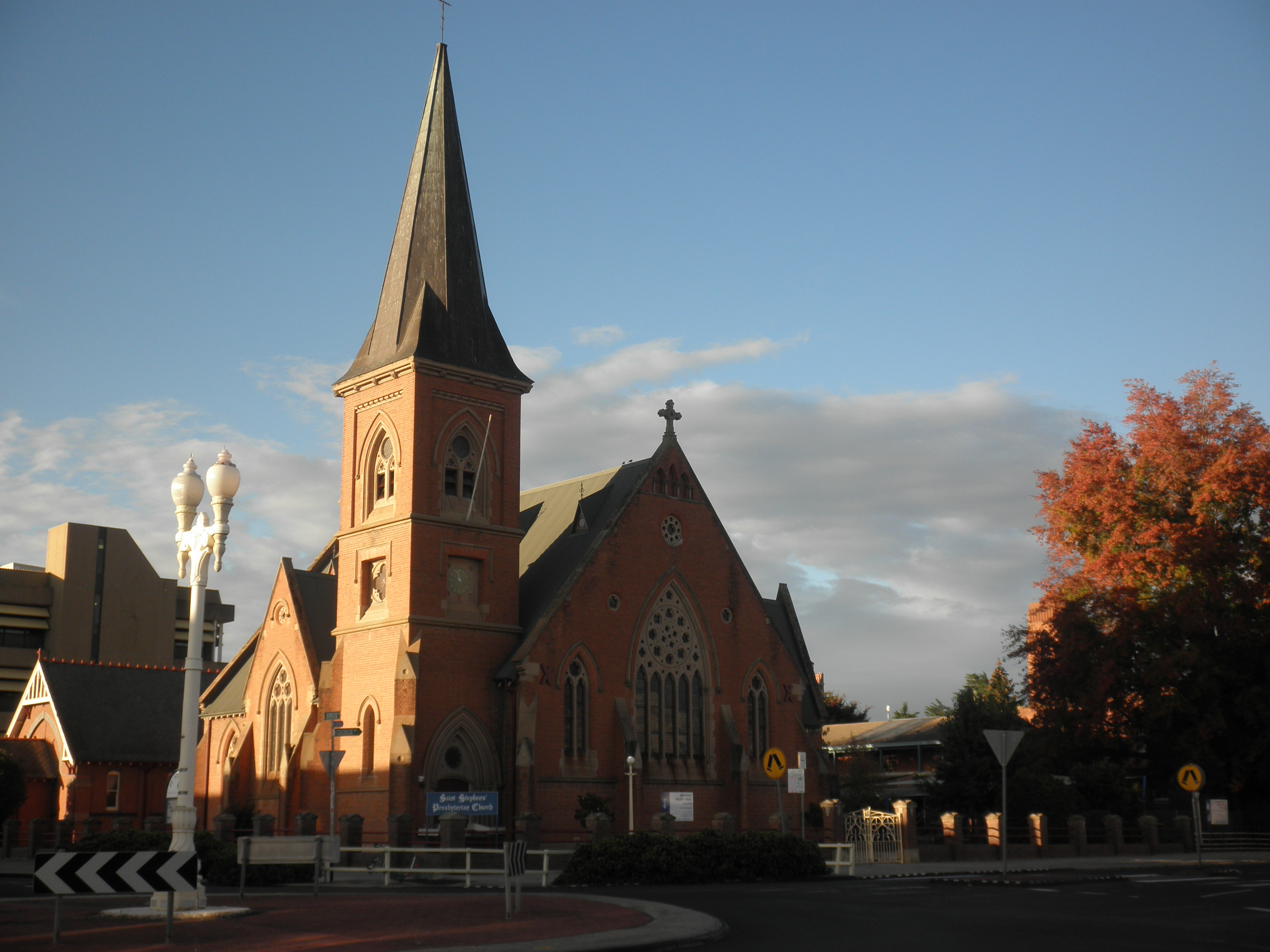 St Stephens Presbyterian Church, Bathurst, New South Wales, Australia. Completed in 1872.